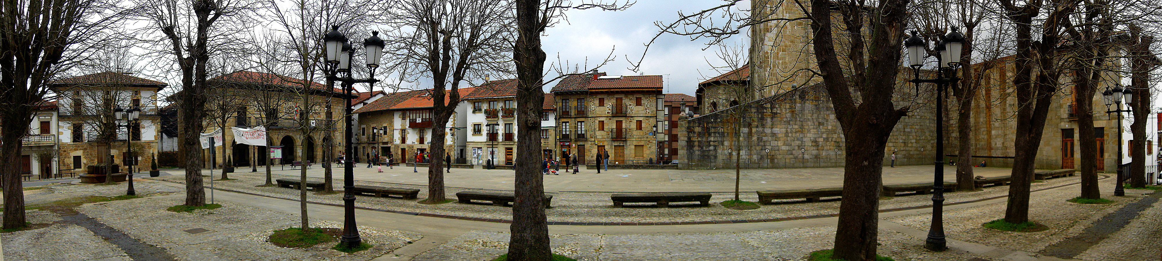 Otxandio (Ochandiano), Biscay, Basque Country, Spain